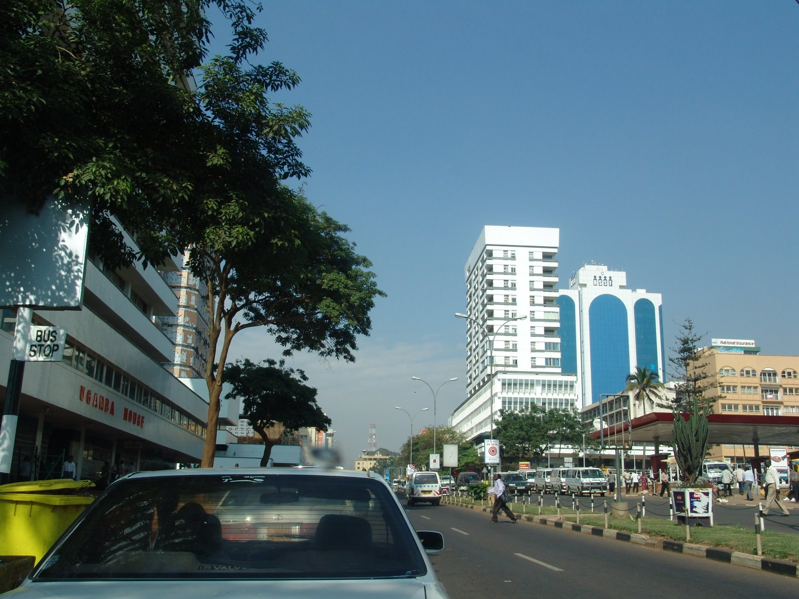 Kampala Road in Kampala City capital of Uganda. Kampala Rd,Uganda, Kampala.